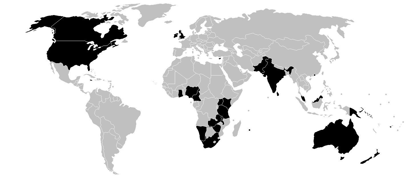 Map of all countries that have national organisations affiliated to St John Ambulance, as of August 2012.